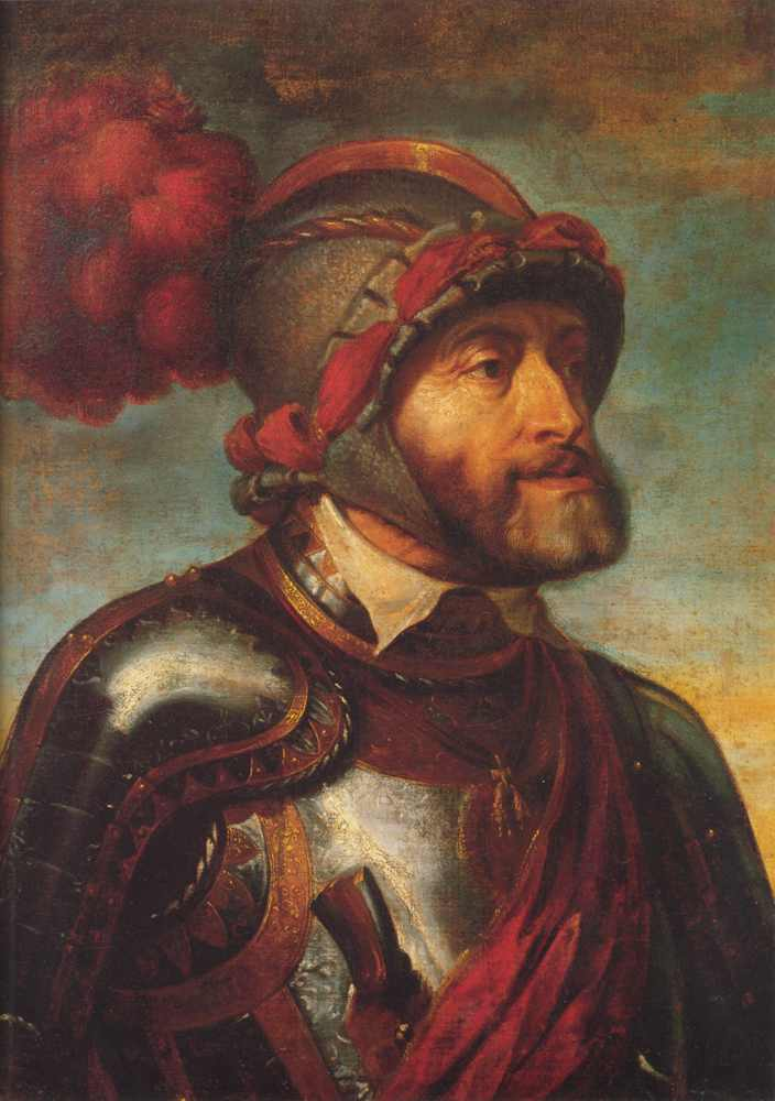 Rubens was the official painter to members of the Habsburg dynasty. He made a particular study of portraits of their great ancestor, the Holy Roman Emperor Charles V, by the sixteenth-century Venetian painter Titian, an artist he particularly admired. This canvas records Titian’s first portrait of Charles V (now lost). The Emperor is depicted as a knight, in full armour. (Permanent collection label)